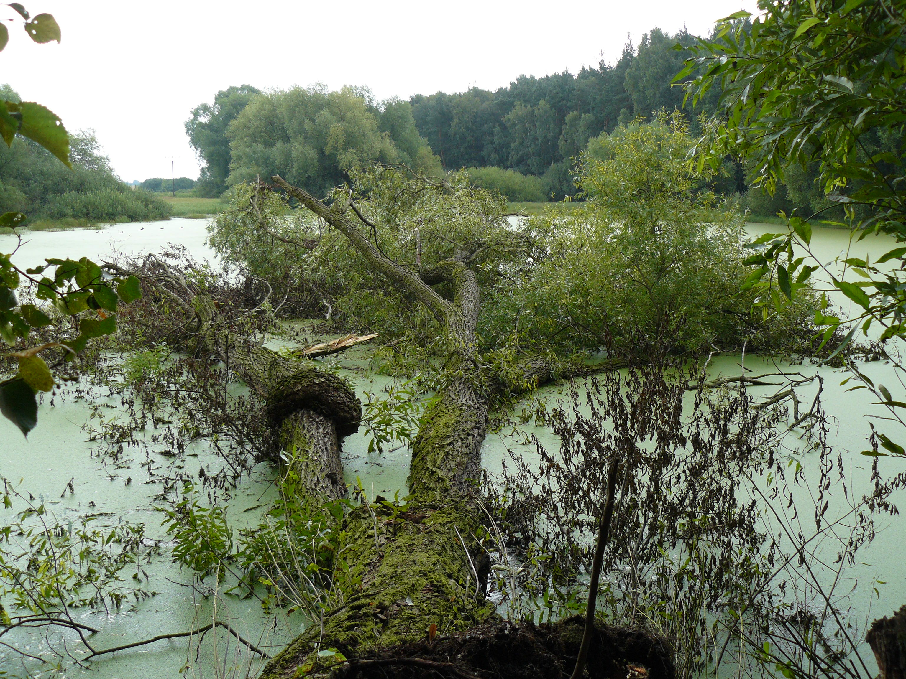 Ledce (Mladá Boleslav) - Písečný Pond